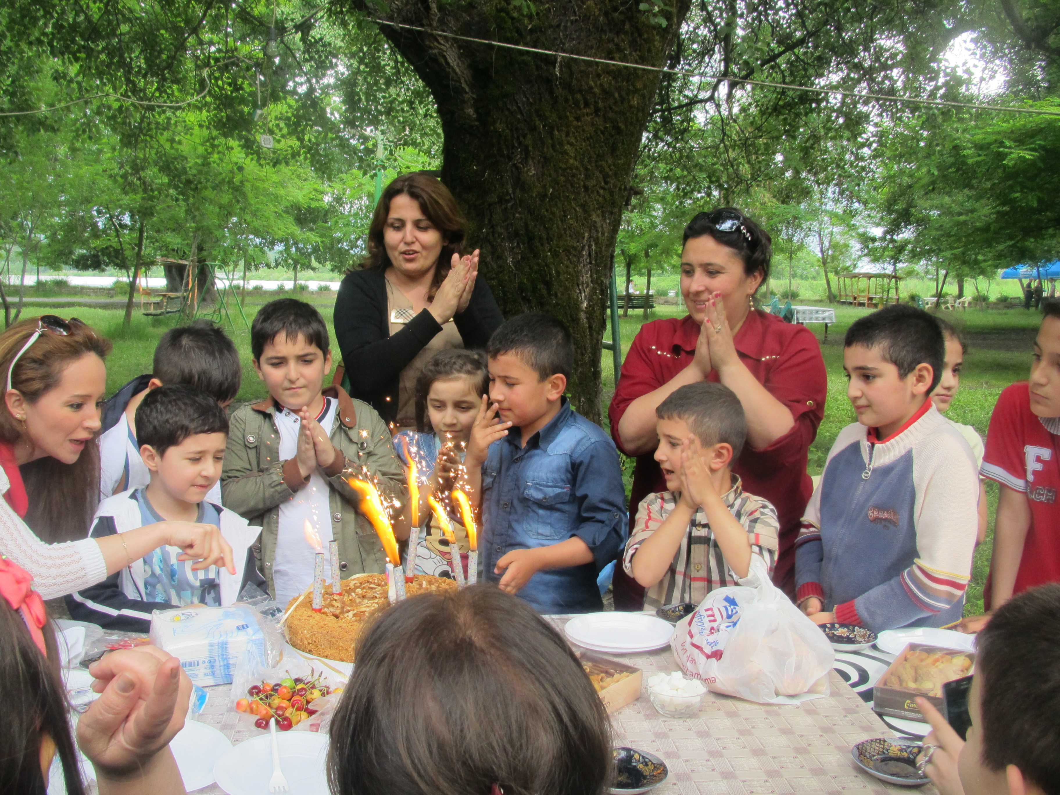 Azerbaijan. Picnic in Qabala. The school children celebrate birthday at the Nohur Lake.